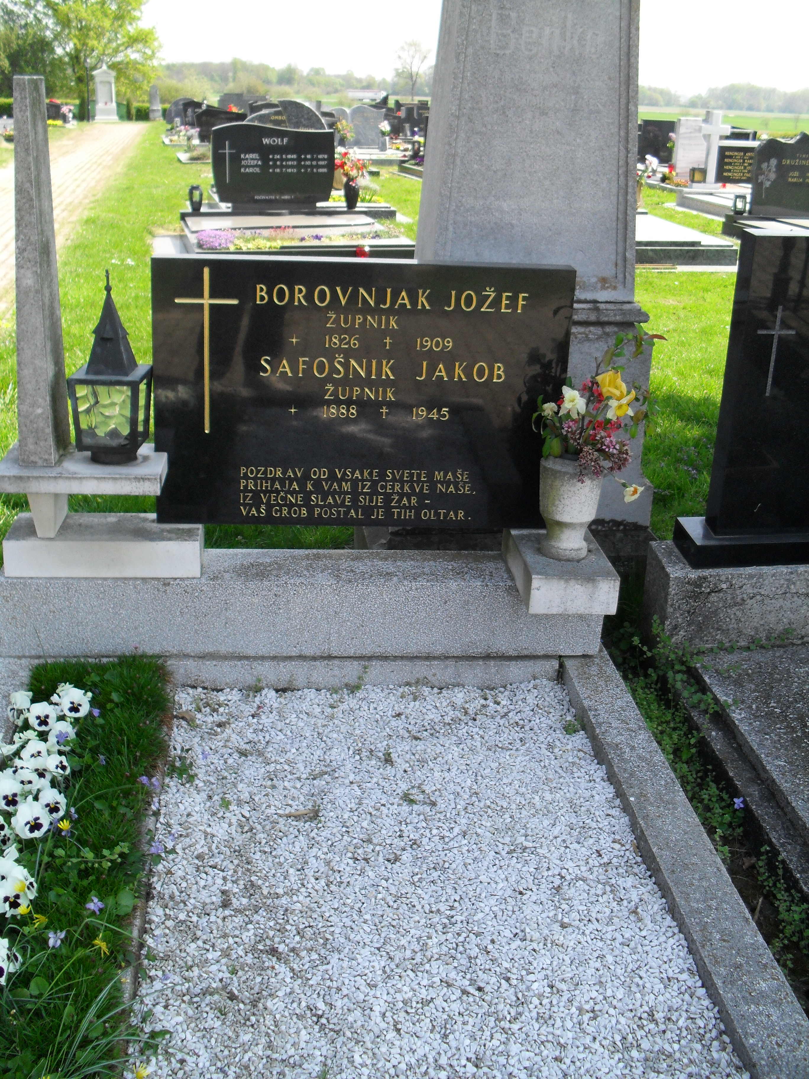 The grave of József Borovnyák (Jožef Borovnjak) in Cankova cemetery with a another priest. Borovnyák was the famous politician and writer of the Hungarian Slovenes and the Prekmurian language (Prekmurščina)